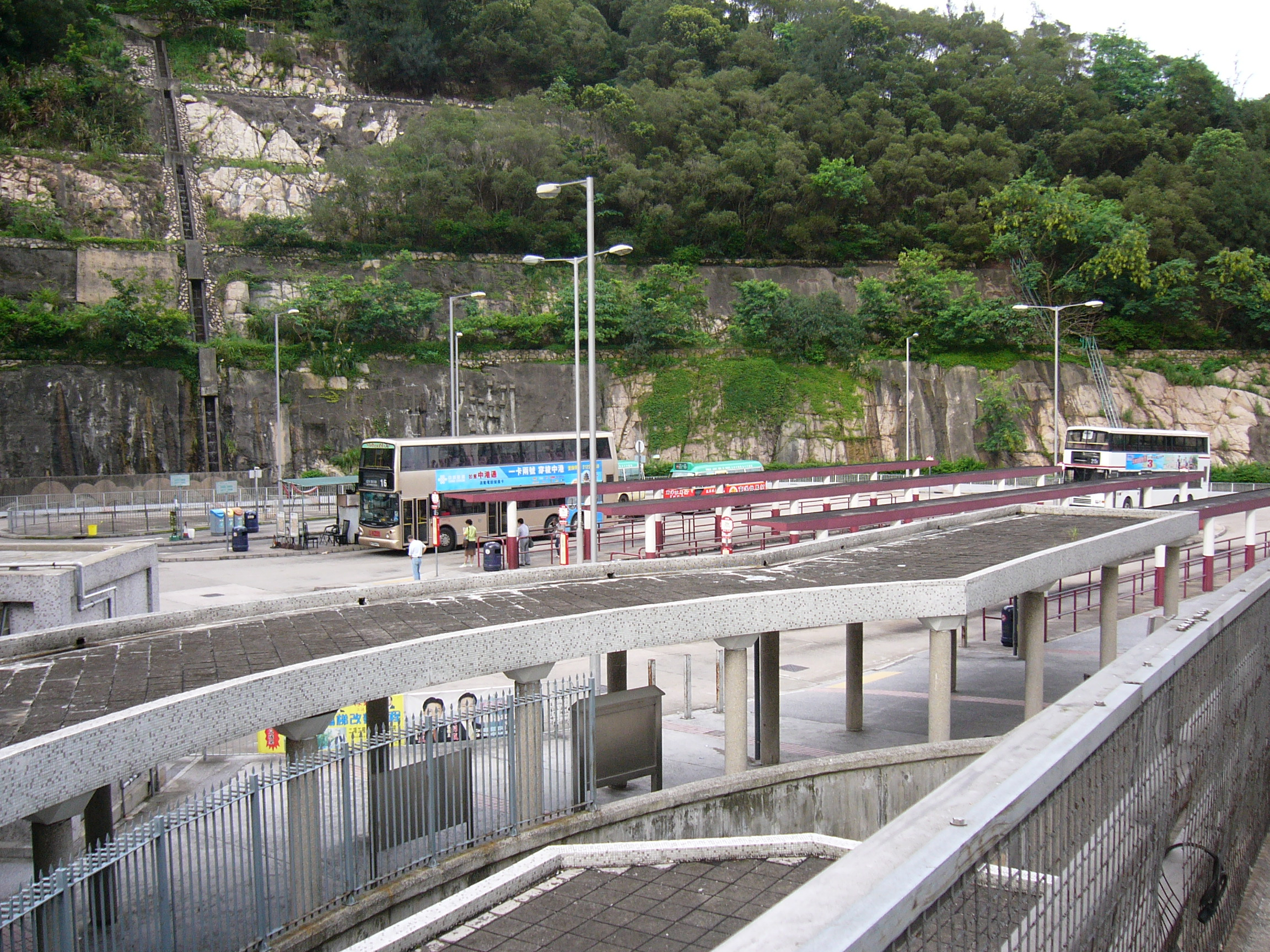 The Kwong Tin Bus Terminus in Lam Tin, Kowloon, Hong Kong.